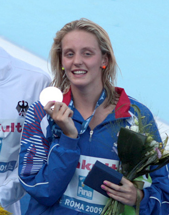 crop of Fran Halsall won 100m freestyle silver at the 2009 World Championships